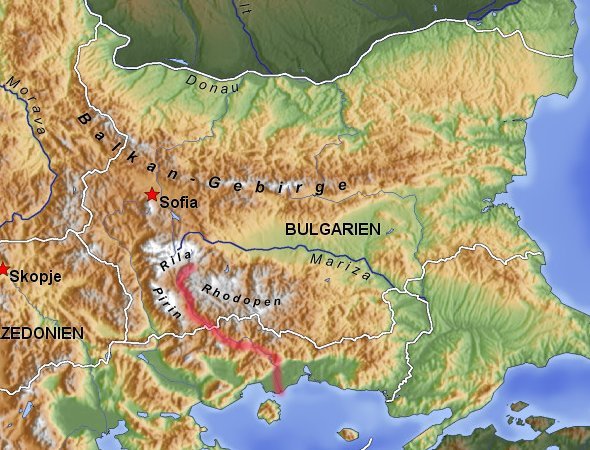 location of Vitosha mountain in Bulgaria